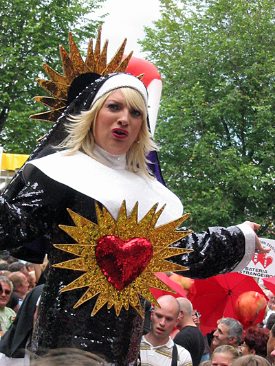 Drag queen Diva Mayday performing during the Hartjesdag parade in Amsterdam, August 19, 2007.